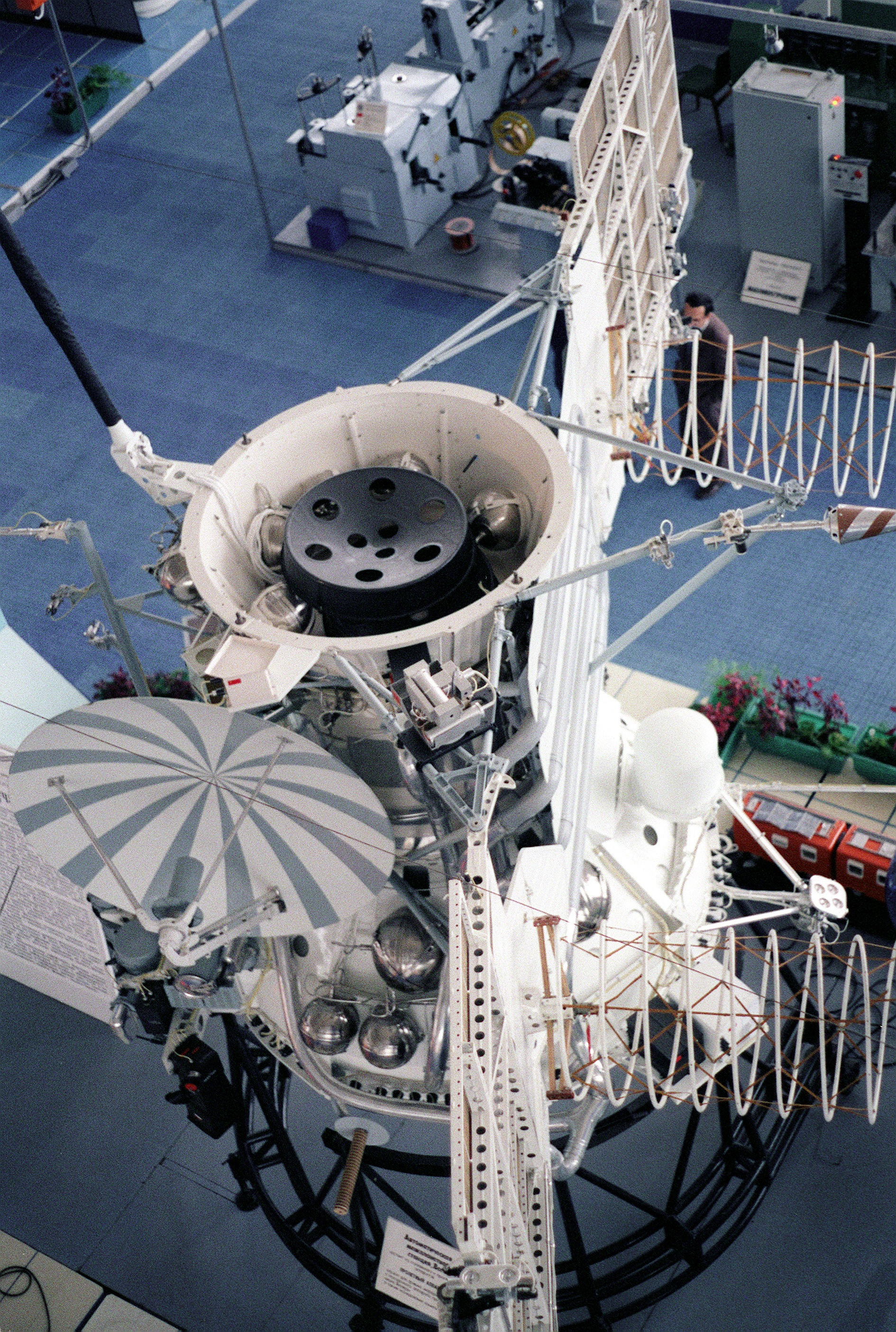 An overhead view of a life-size replica of Vega solar system probe. The craft is on display in one of the pavilions of the Exhibition of Achievements of the National Economy.